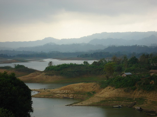 Rangamati is the greenest city in Bangladesh. Furthermore its beauty lays in the people, culture, landscape and lifestyle. The picture is take at Tabalchhori at BDR Rangamati.